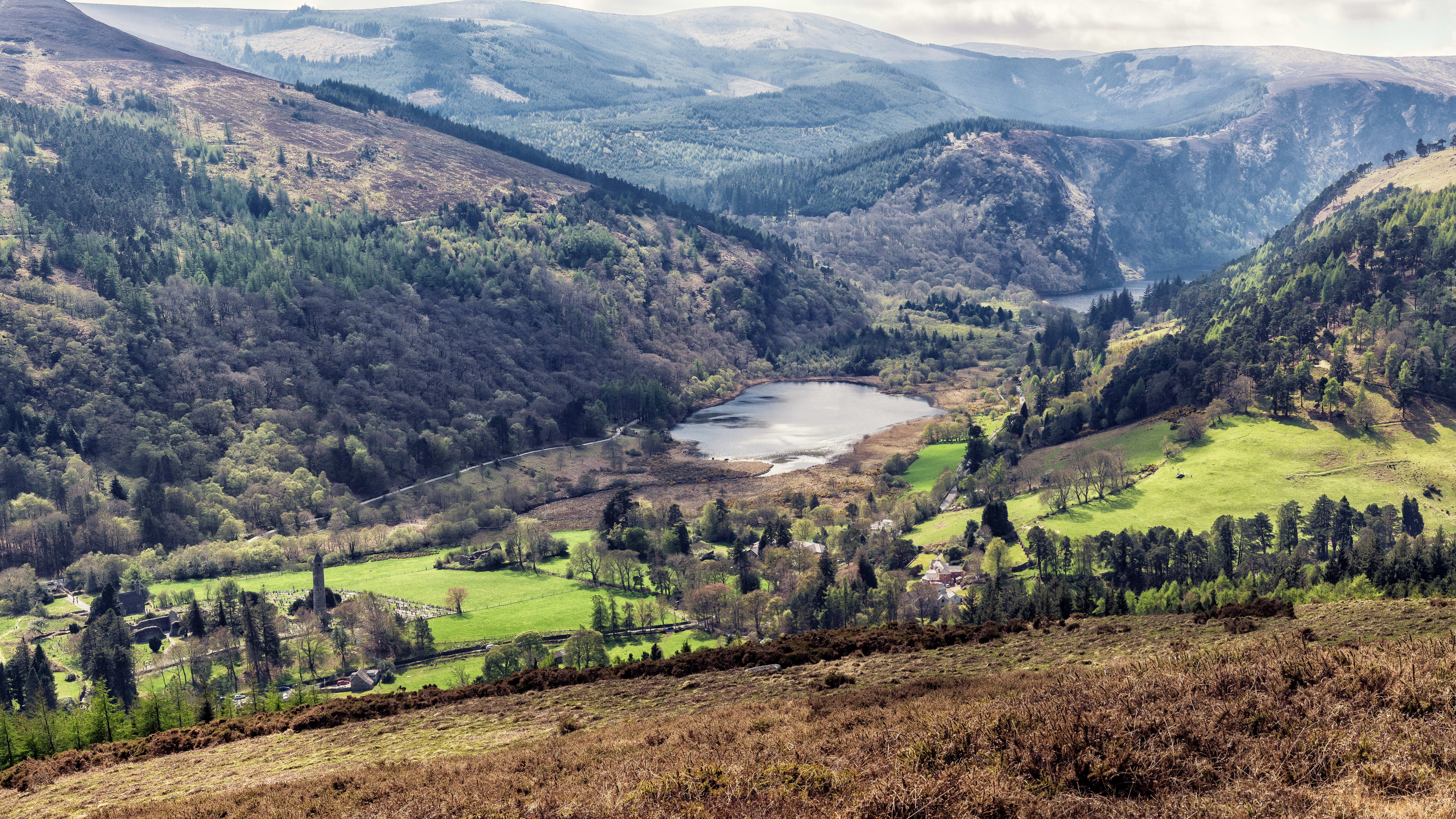 Photograph of the Glendalough Valley, County Wicklow, Ireland, facing south-west, taken from the south-east slope of Brockagh Mountain, showing the early Christian monastic settlement, the Lower Lake and the Upper Lake that give Glendalough ("The Valley of the Two Lakes") its name, flanked to the south by Derrybawn Mountain and Lugduff Spink and to the north by Camaderry Mountain.